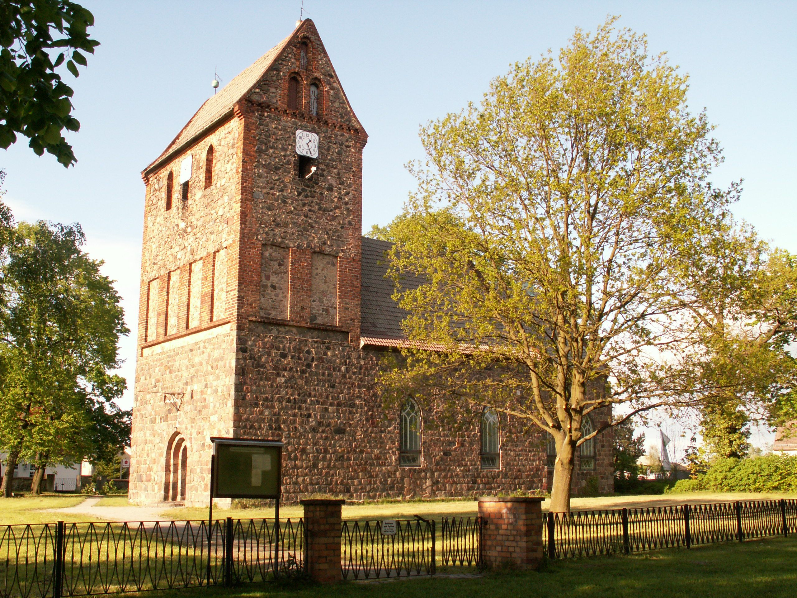 The village church of Lindenberg, Ahrensfelde municipality,, Barnim district, Brandenburg state, Germany. This 13th century church belongs to the oldest ones in Brandenburg.